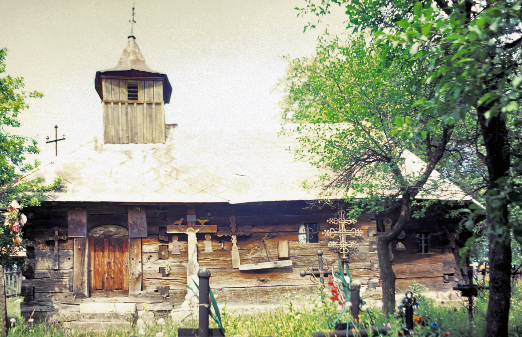 Wooden church Sf. Arhangheli Mihail şi Gavril in Şurdeşti, Maramureş